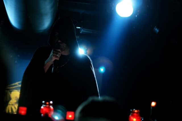 Void ov Voices (Attila Csihar) live at Gellert, Budapest